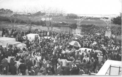 Estadi de Aldosivi